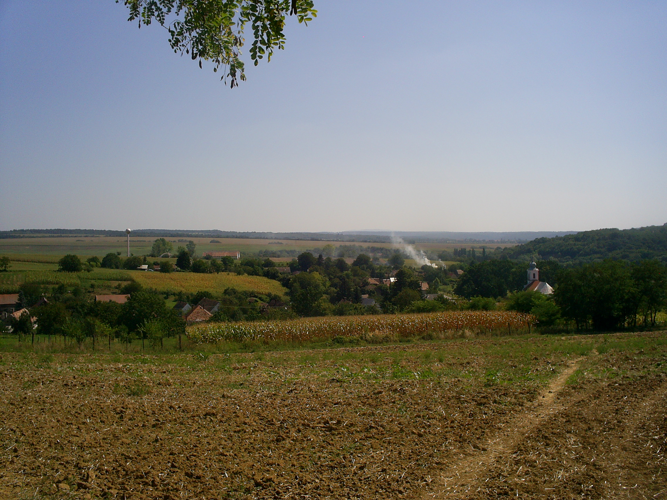 the view of Szulimán from the west, taken from a hillside of Gilice. (Gilice is one of the two vineyards of the village.)